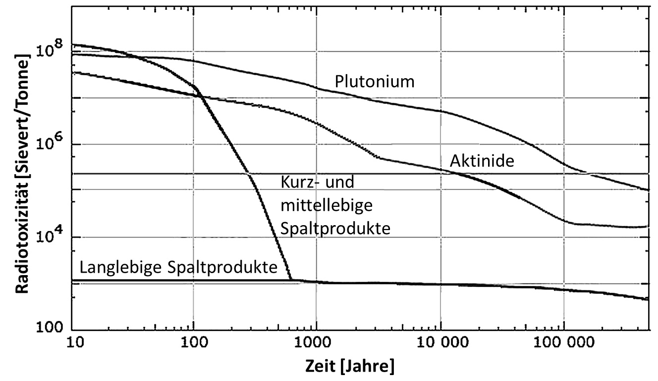 Nuclear Waste Decay Data